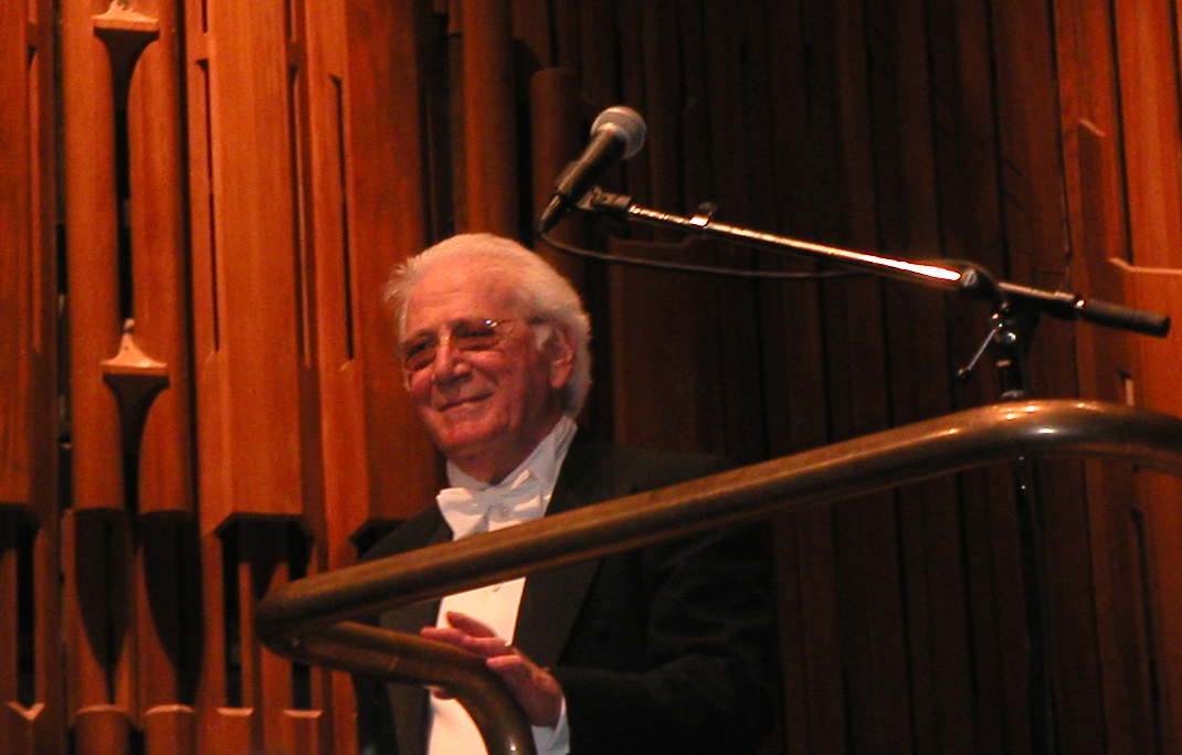 Jerry Goldsmith conducting London Symphony Orchestra